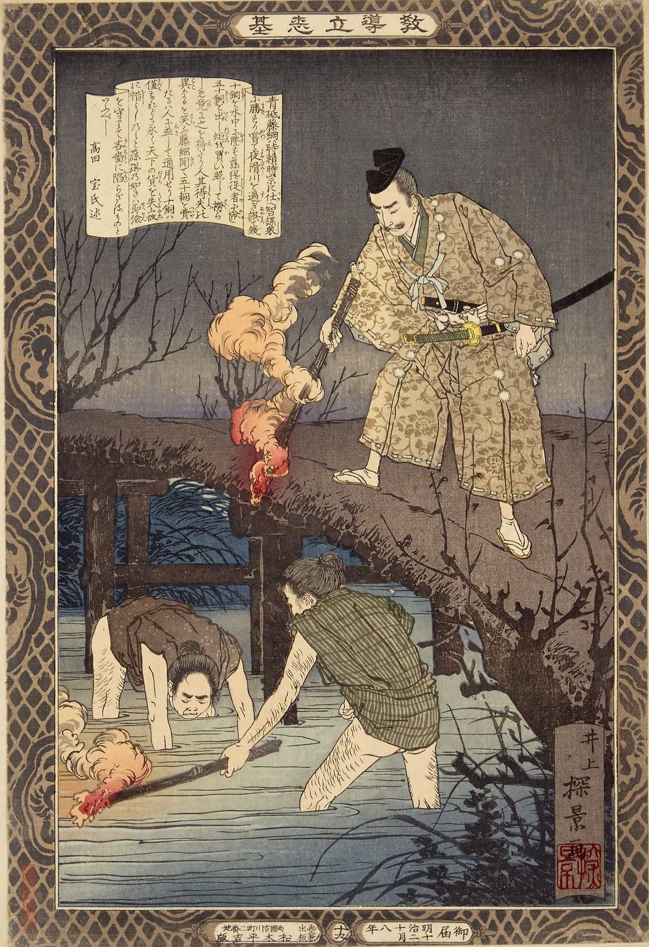 Aoto Fujitsuna, from the series Instruction in the Fundamentals of Success, Woodblock print